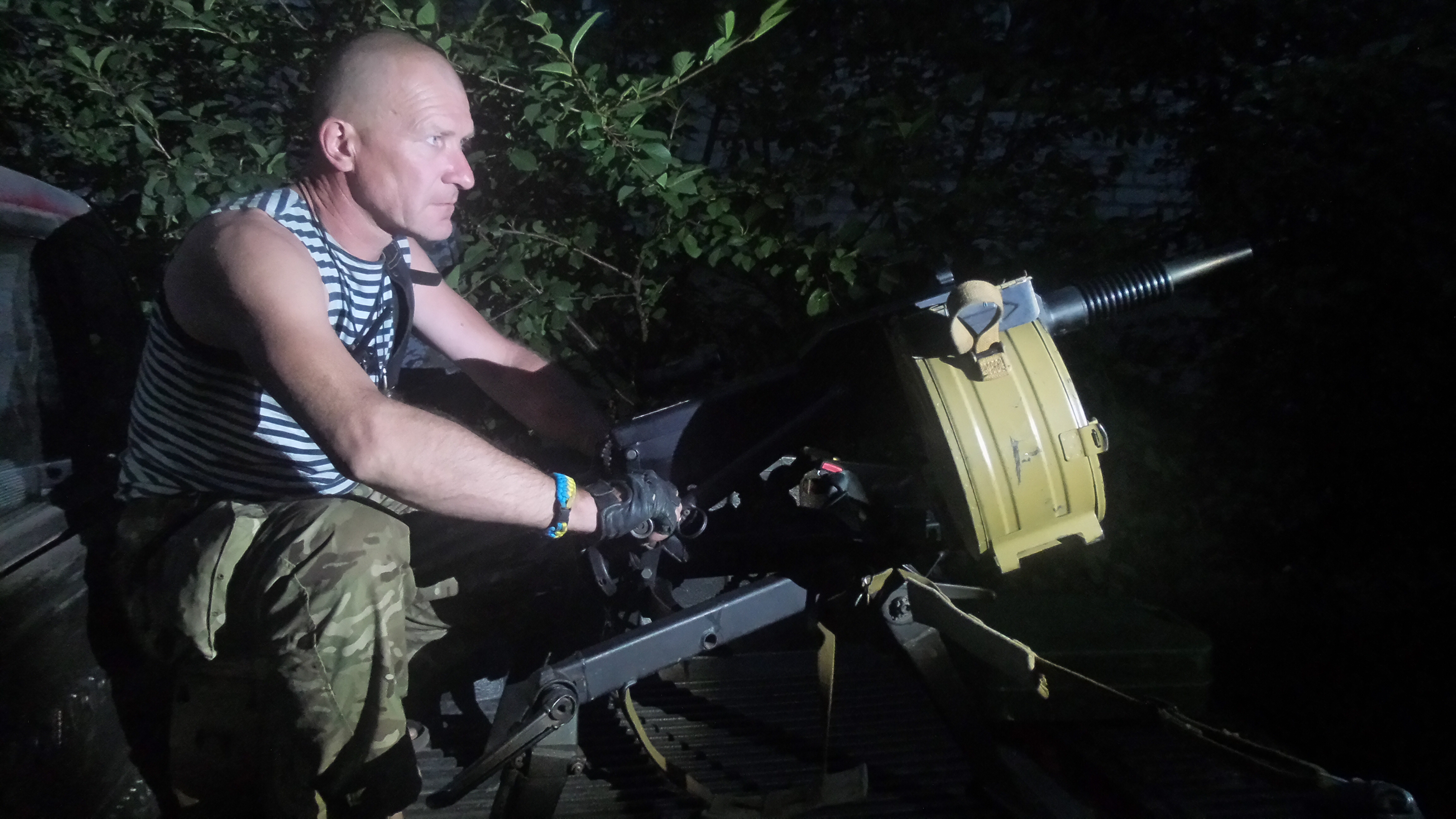 Battalion "Donbas" in Popasna, Lugansk region